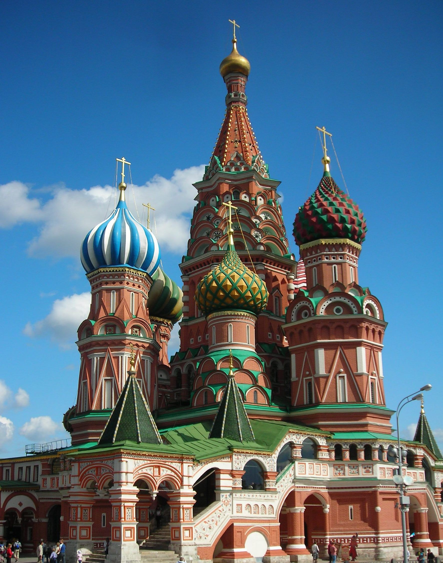 St. Basil, Red Square, Moscow, Russia